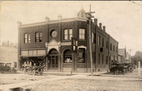 Photo postcard from 1910s of First National Bank, Mayville, North Dakota.